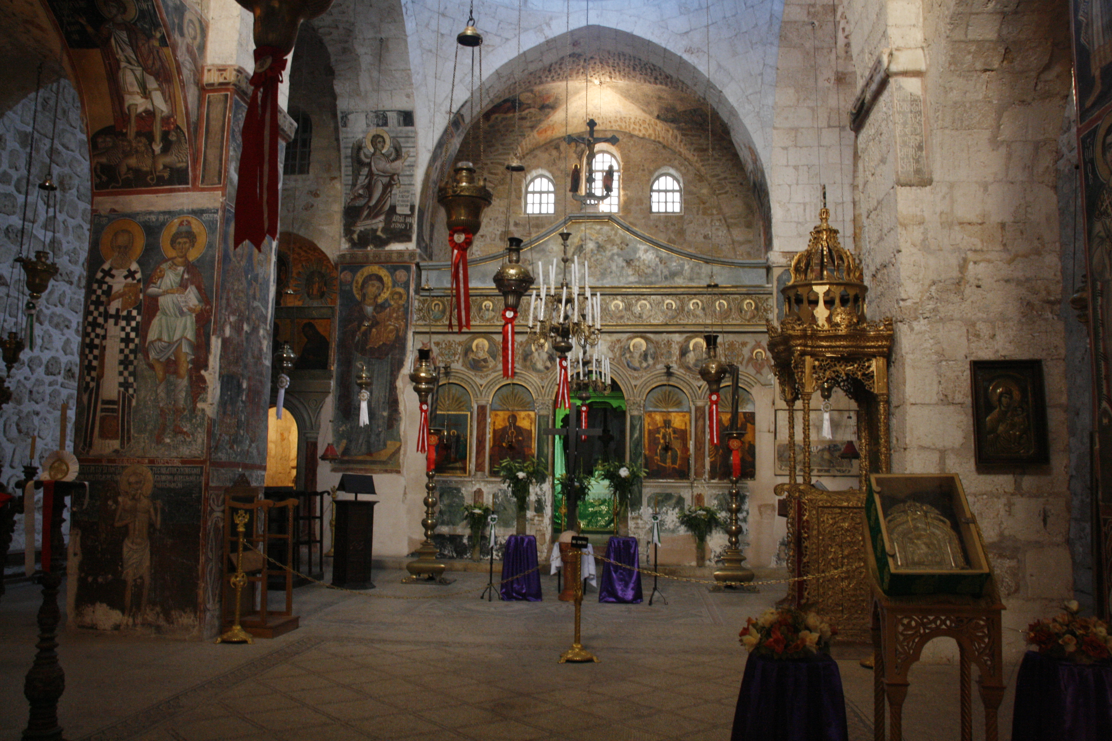 Jerusalem - Inside look at the monastery of the cross church.